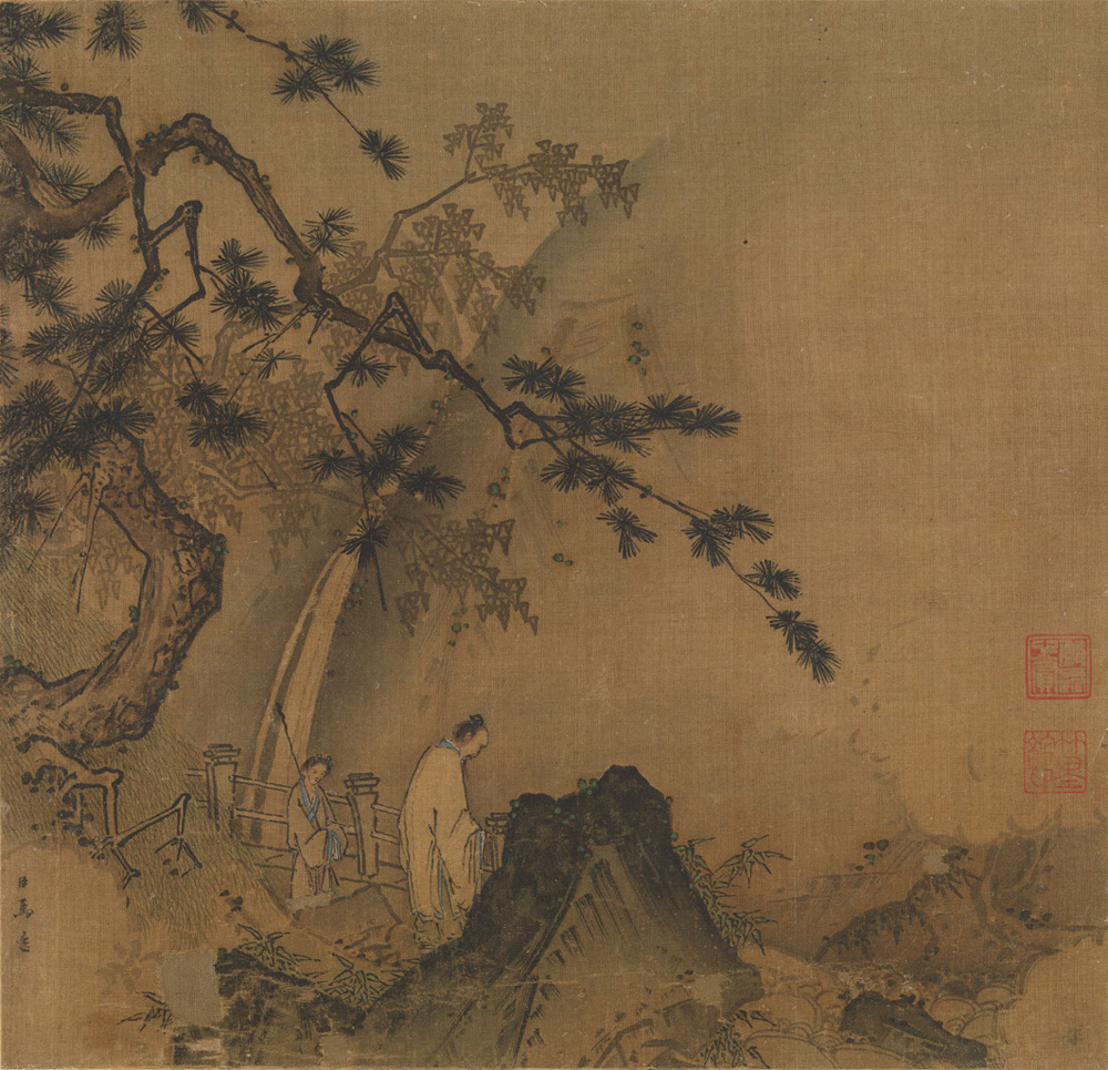 Ink and color on silk